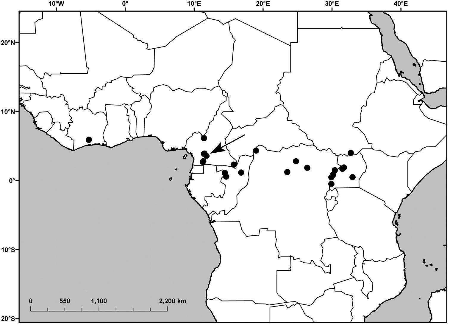 Distribution of Polyspatha oligospatha Faden, sp. nov. The arrow indicates the location of the collection Letouzey 11465, which is atypcial for the species